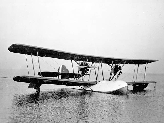 Canadian Vickers Varuna Mark I G-CYGV, assigned to No. 3 (Operations) Squadron following type-test flights at Station Ottawa in 1927 (per Kostenuk, Samuel (1977) RCAF: Squadron Histories and Aircraft, 1924–1968, Canadian War Museum Historical Publication No. 14, Sarasota/Toronto: Samuel Stevens/Hakkert & Company, p. 16 ISBN: 0-88866-577-6. )